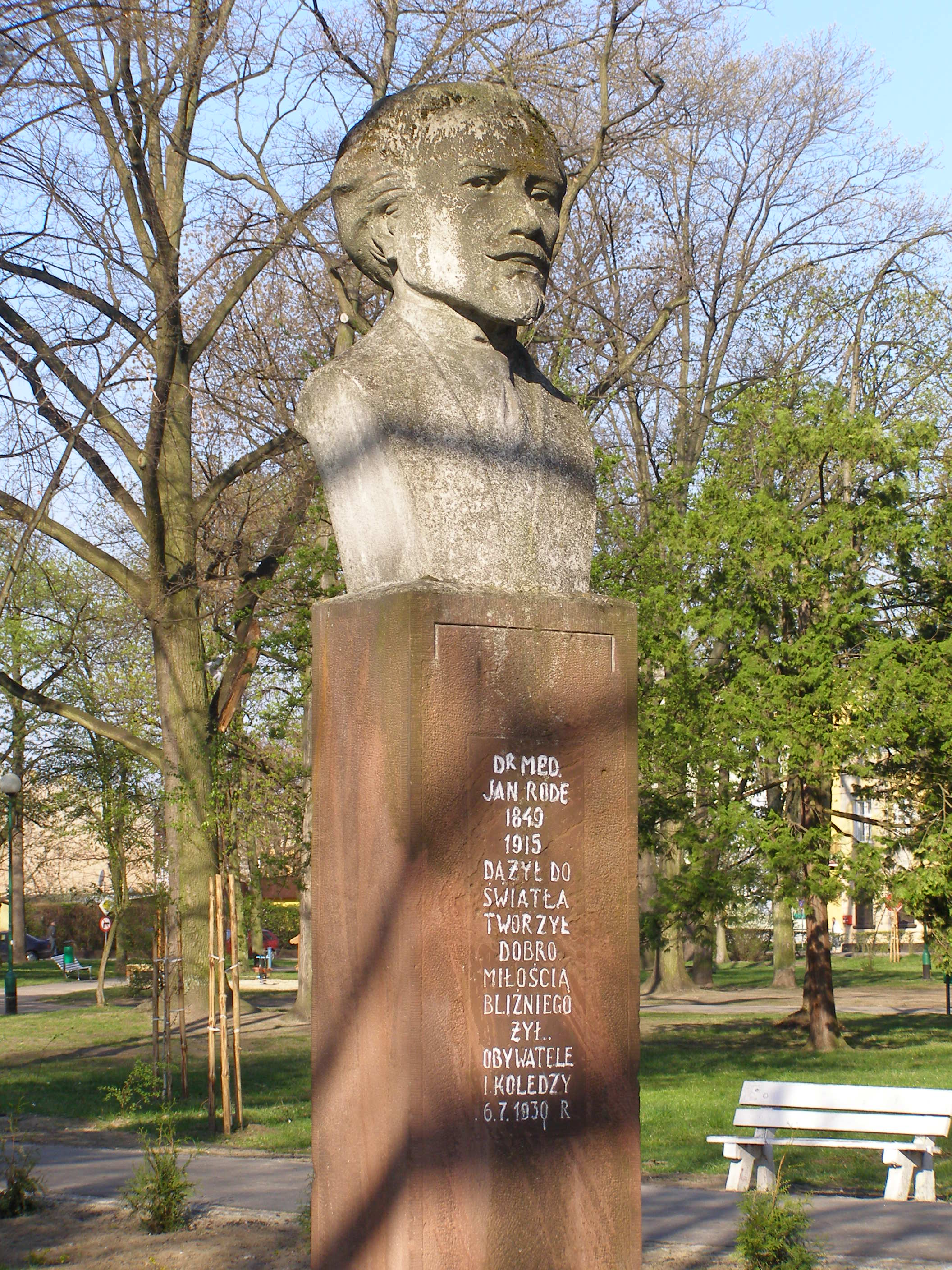 Memorial of Dr. Jan Serafin Rode (1849-1915), Tomaszów Mazowiecki, Poland